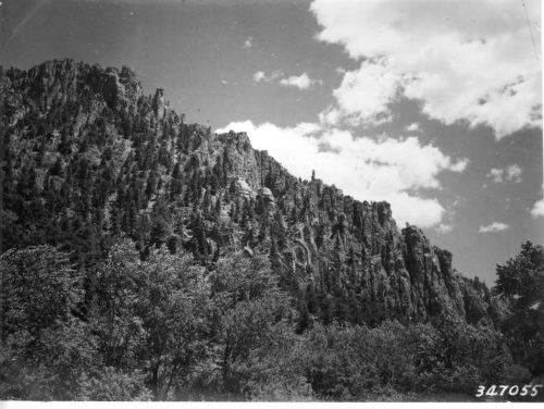 1937—The Pallisades in Cimarron Canyon. Photo by R. King FS #347055